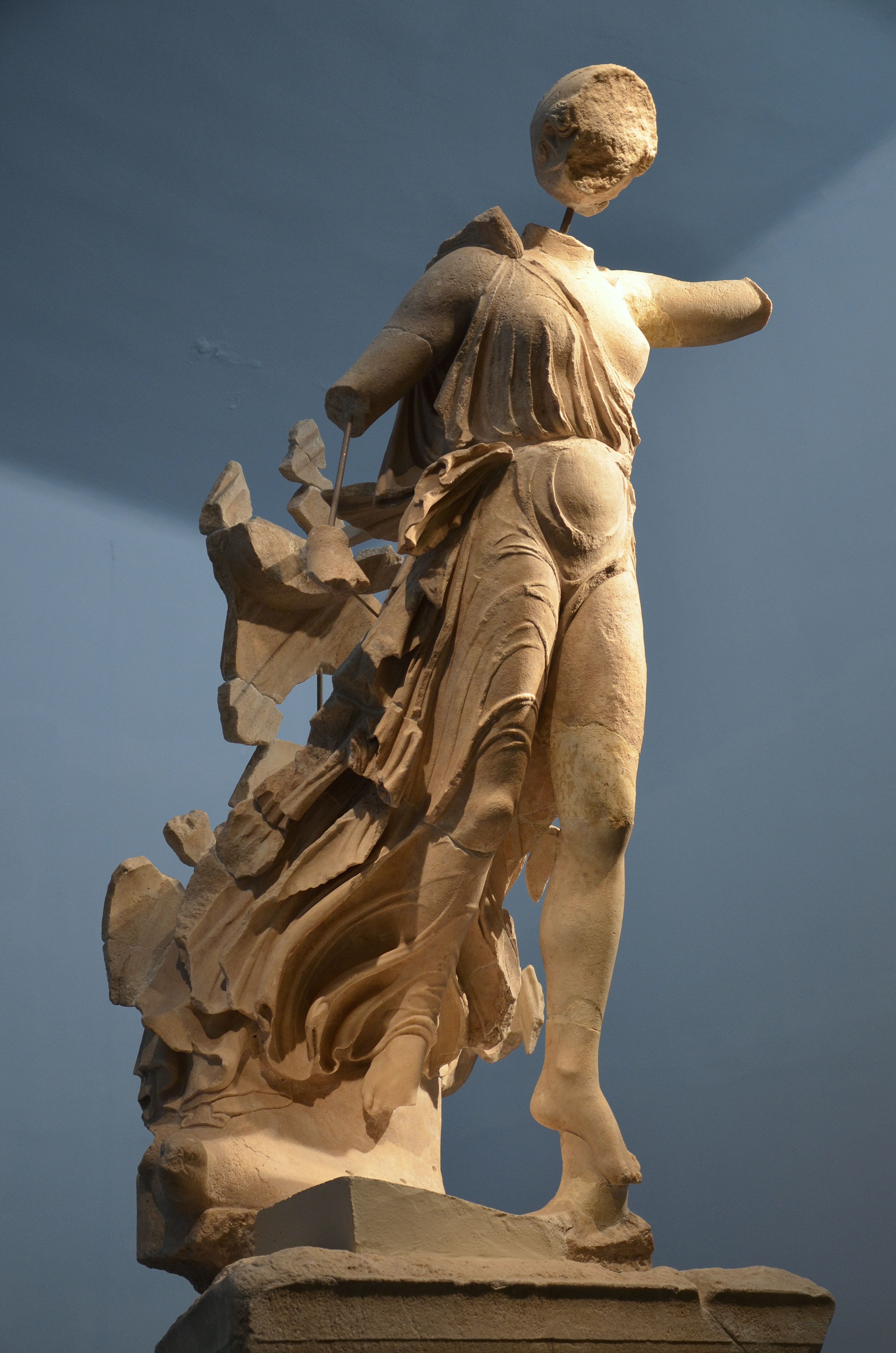 The statue depicts a winged woman. An inscription on the base states that the statue was dedicated by the Messenians and the Naupactians for their victory against the Lacedaemonians (Spartans), in the Archidamian (Peloponnesian) war prabably in 421 B.C. It is the work of the sculptor Paionios of Mende in Chalkidiki, who also made the acroteria of the Temple of Zeus. Nike, cut from Parian marble, has a height of 2,115m, but with the tips of her (now broken) wings would have reached 3m. In its completed form, the monument with its triangular base (8,81m high) would have stood at the height of 10,92m. giving the impression of Nike triumphantly descending from Olympos. It dates from 421 B.C.